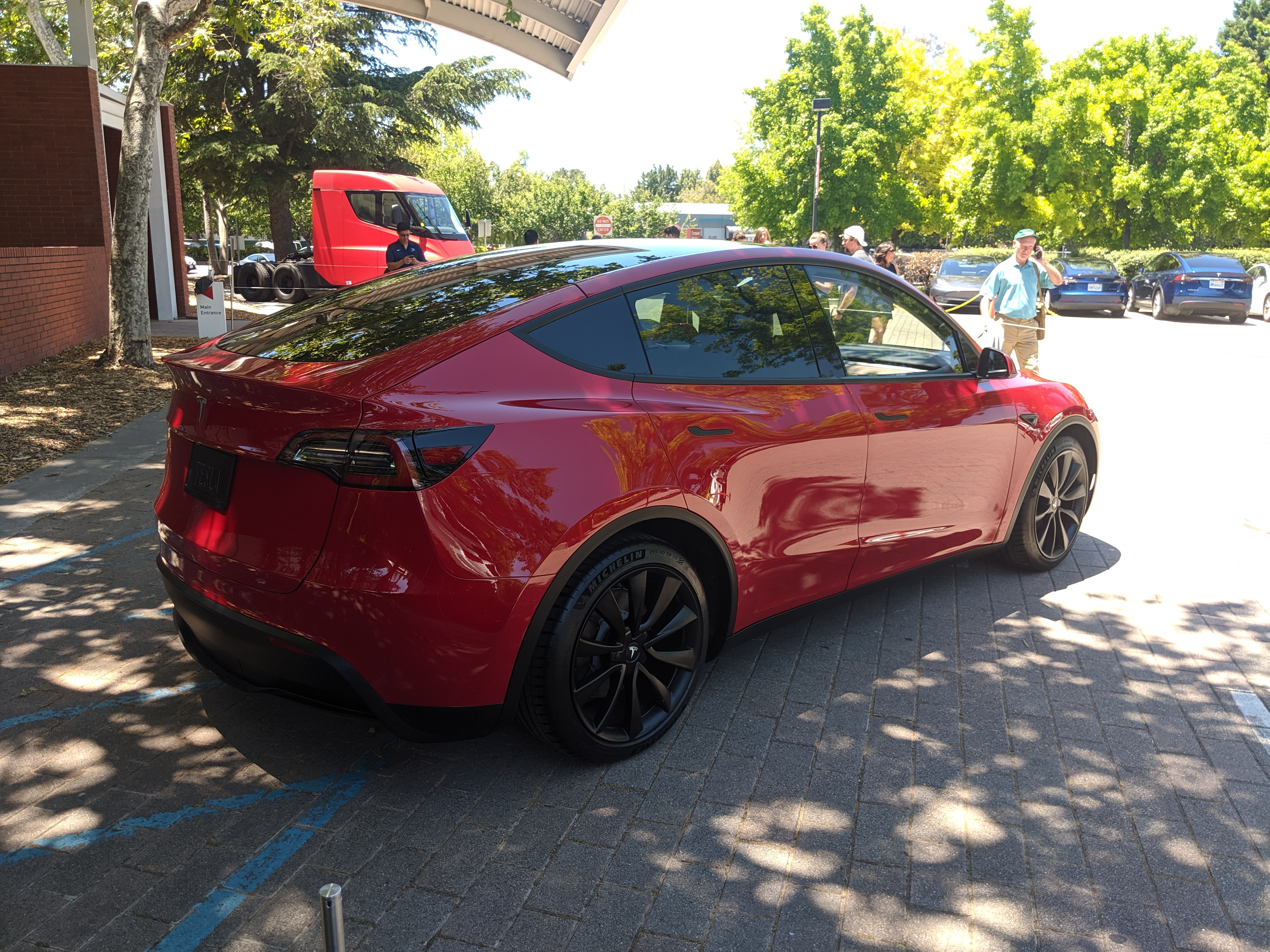 Tesla Model Y rear passenger view, taken at investor conference